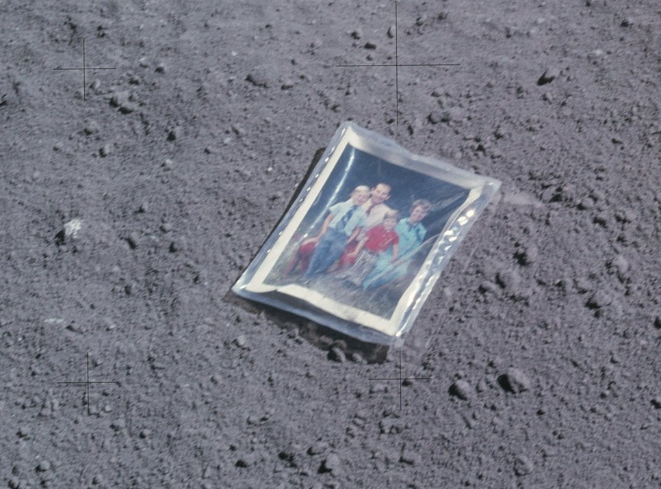 Charlie Duke's family portrait left on the surface of the moon. Cat Crater at Station 14 was named for sons Charles And Tom. Dot Crater at Station 16 was named for his wife.[1]